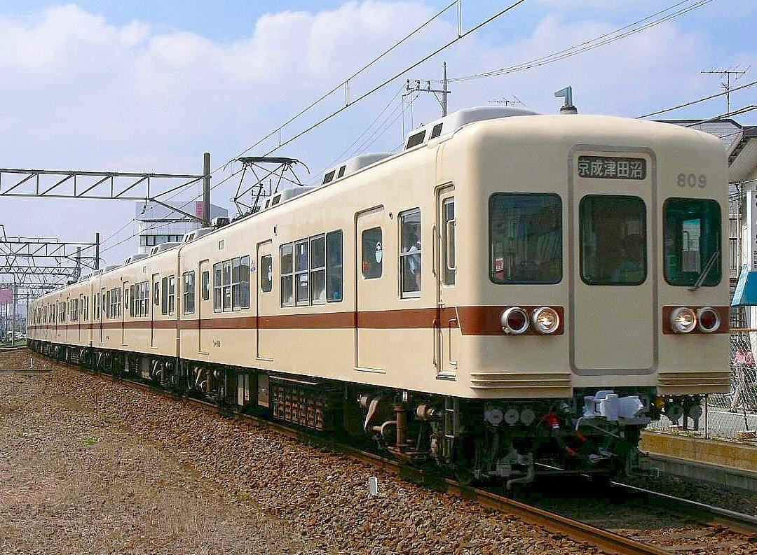 Shin-Keisei Electric Railway 800 series set 809